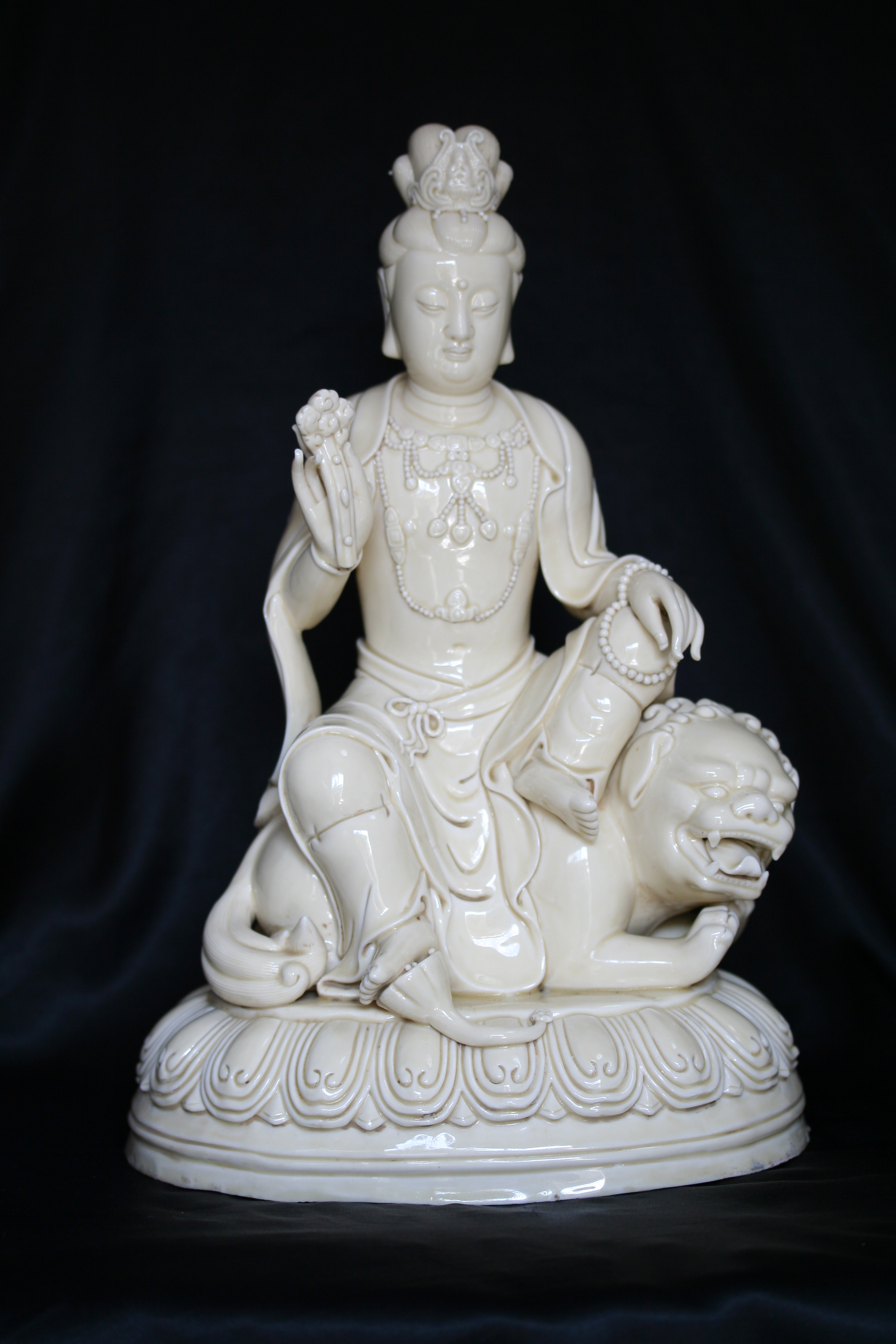 Bodhisattva Manjusri, Nantoyōsō Collection, Japan